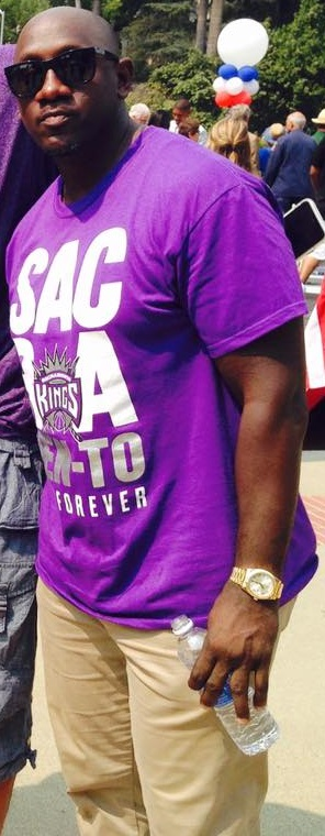 Bobby Jackson who played for the Kings and won Sixth Man of the Year